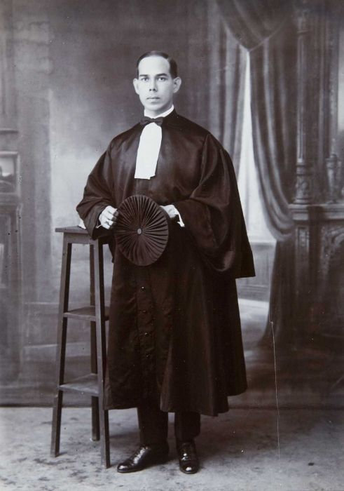 Studio portrait of H.E. Boissevain as a judge, Lawang